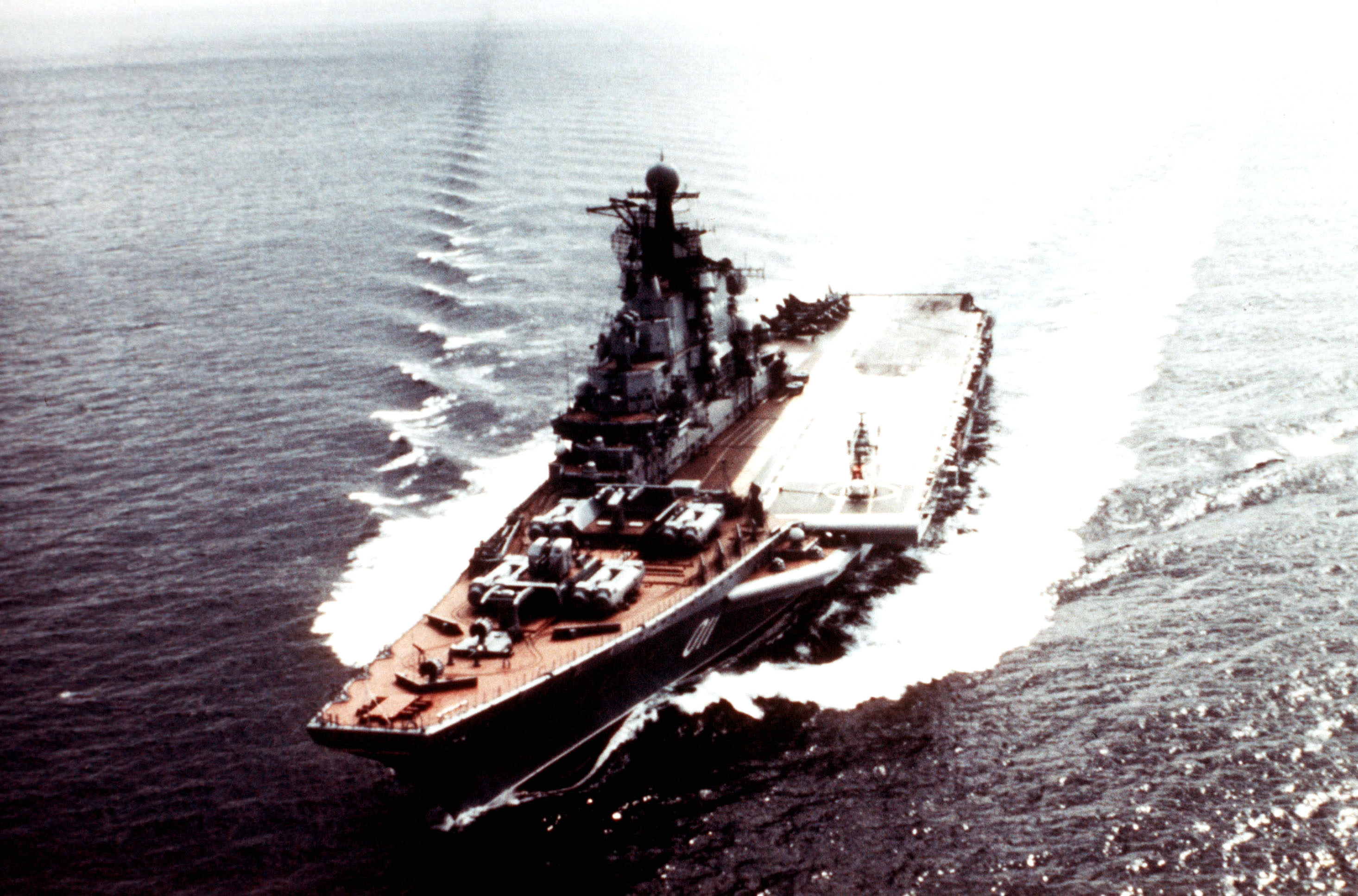 The carrier MINSK. Courtesy of Soviet Military Power, 1984. Photo No. 143, pages 134 and 135.